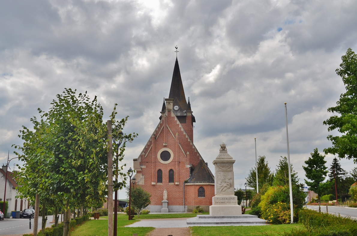 église St Vaast